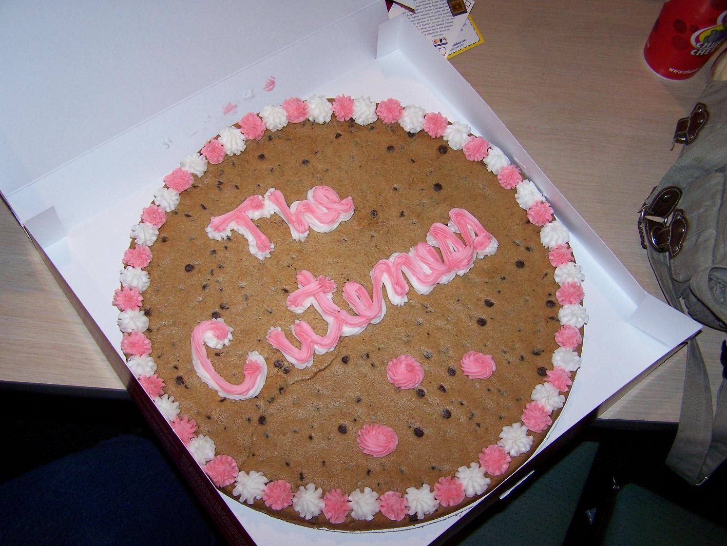 Image of a Cookie Cake from Mrs. Fields Cookies in St. Louis, Missouri. Photo taken with a Kodak z650 on Sunday April 29th, 2007